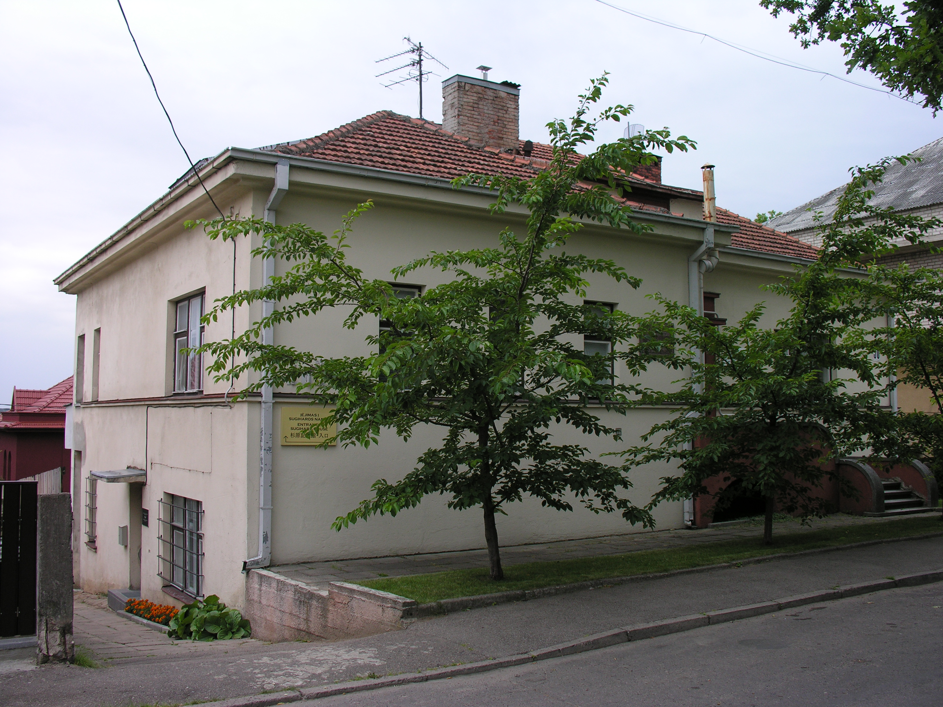 Sugihara House, the former Japanese consulate in Kaunas